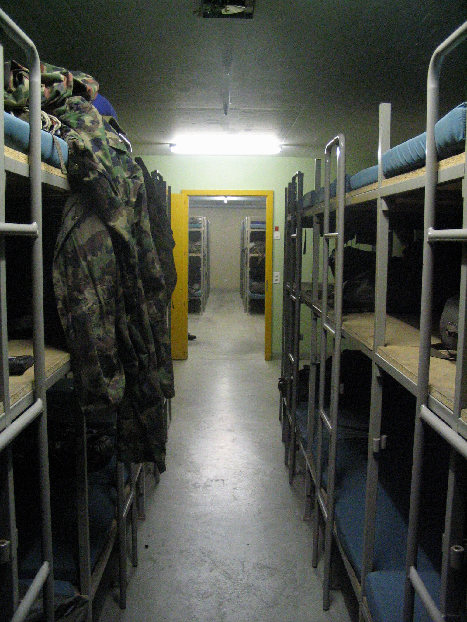 Fallout shelter at Vernayaz in Switzerland. This kind of shelter is called "abri PC" (protection civile) and is supposed to be used by civilians during war. The Swiss Army uses these shelters during peace time, mainly to host soldiers for repetition courses. The army also owns "military shelters."